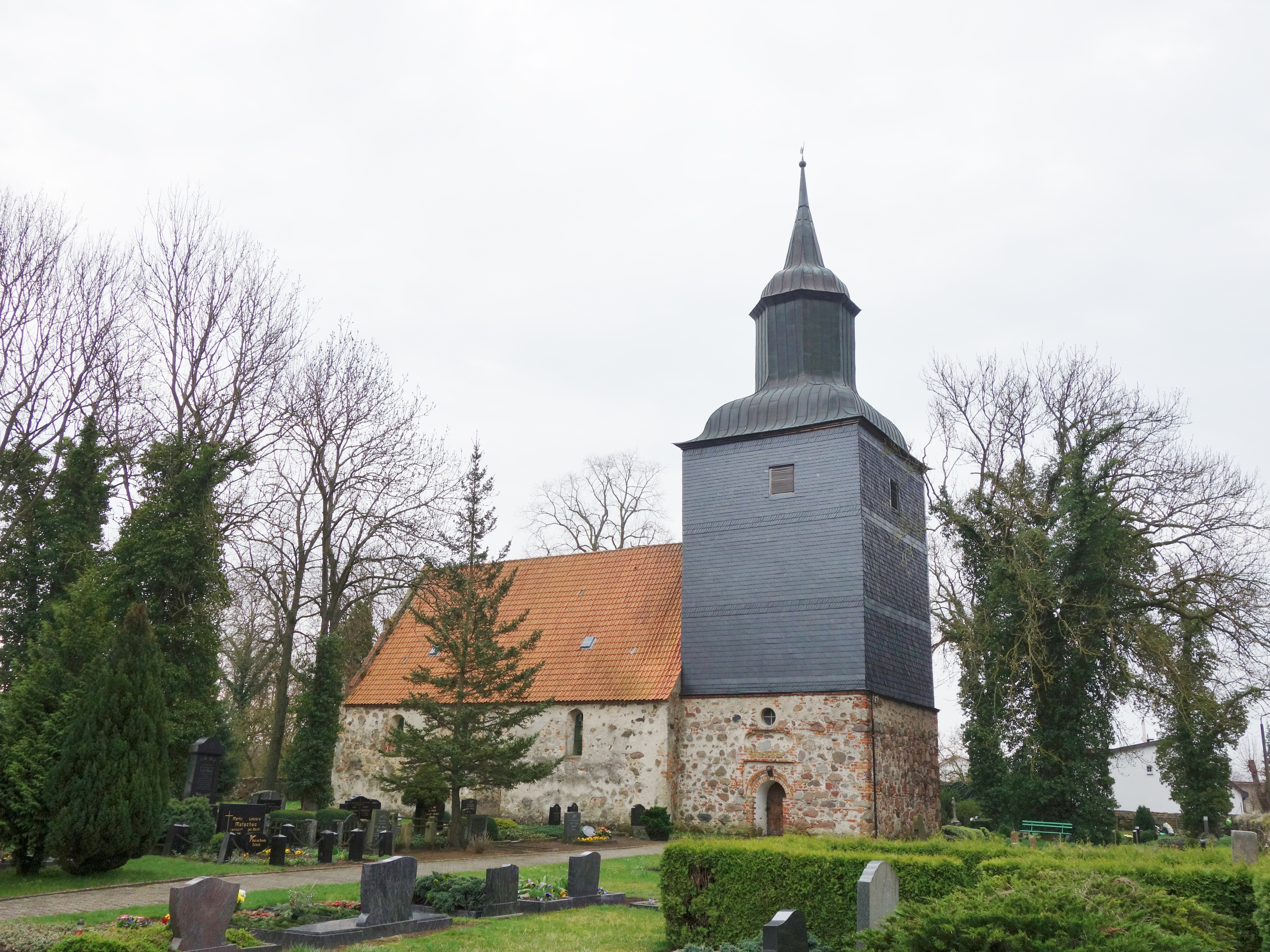 North-western view of church in Trebenow, Uckerland municipality, Uckermark district, Brandenburg state, Germany